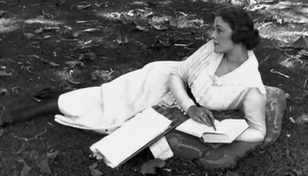 Frances Marion Posing